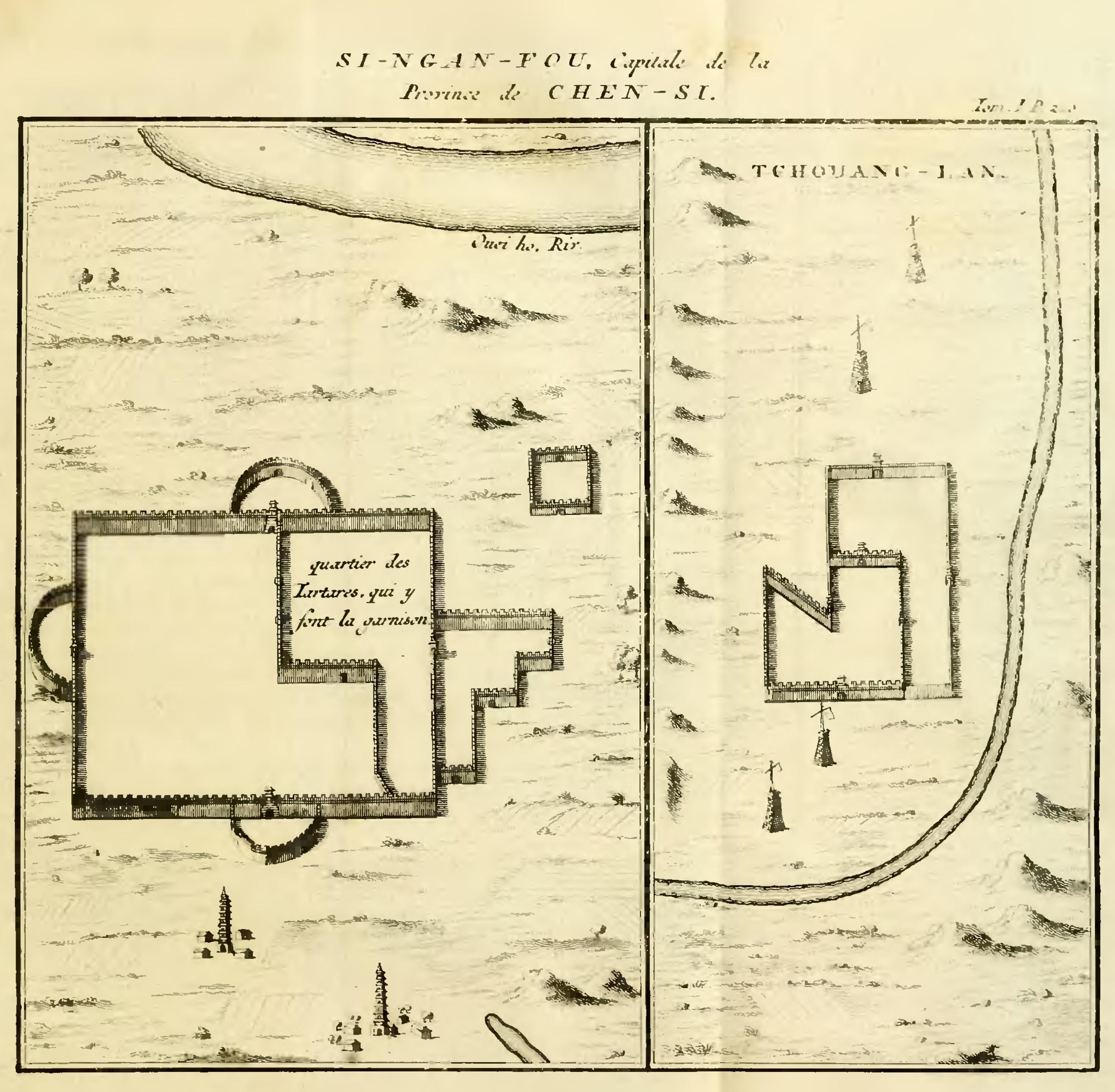 Maps of Xi'anfu (西安府) and Zhuanglang (莊浪), towns of Shaan-Gan. Engravings from La Haye's edition of Du Halde's Description of China, Vol. I, p. 221.